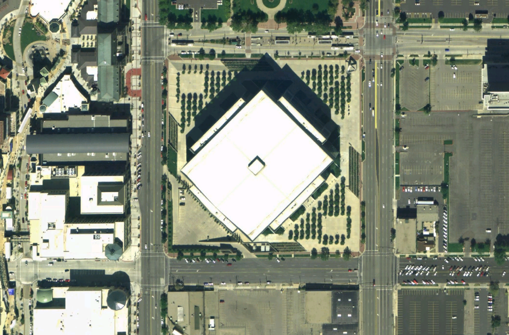 Delta center satellite view, nasa world wind 1.3.5